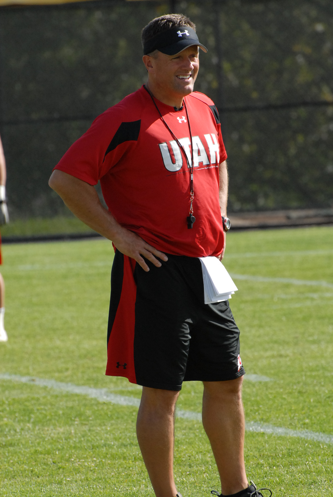 Kyle Whittingham (born 1959), football head coach at the University of Utah since 2005, during practice in 2009